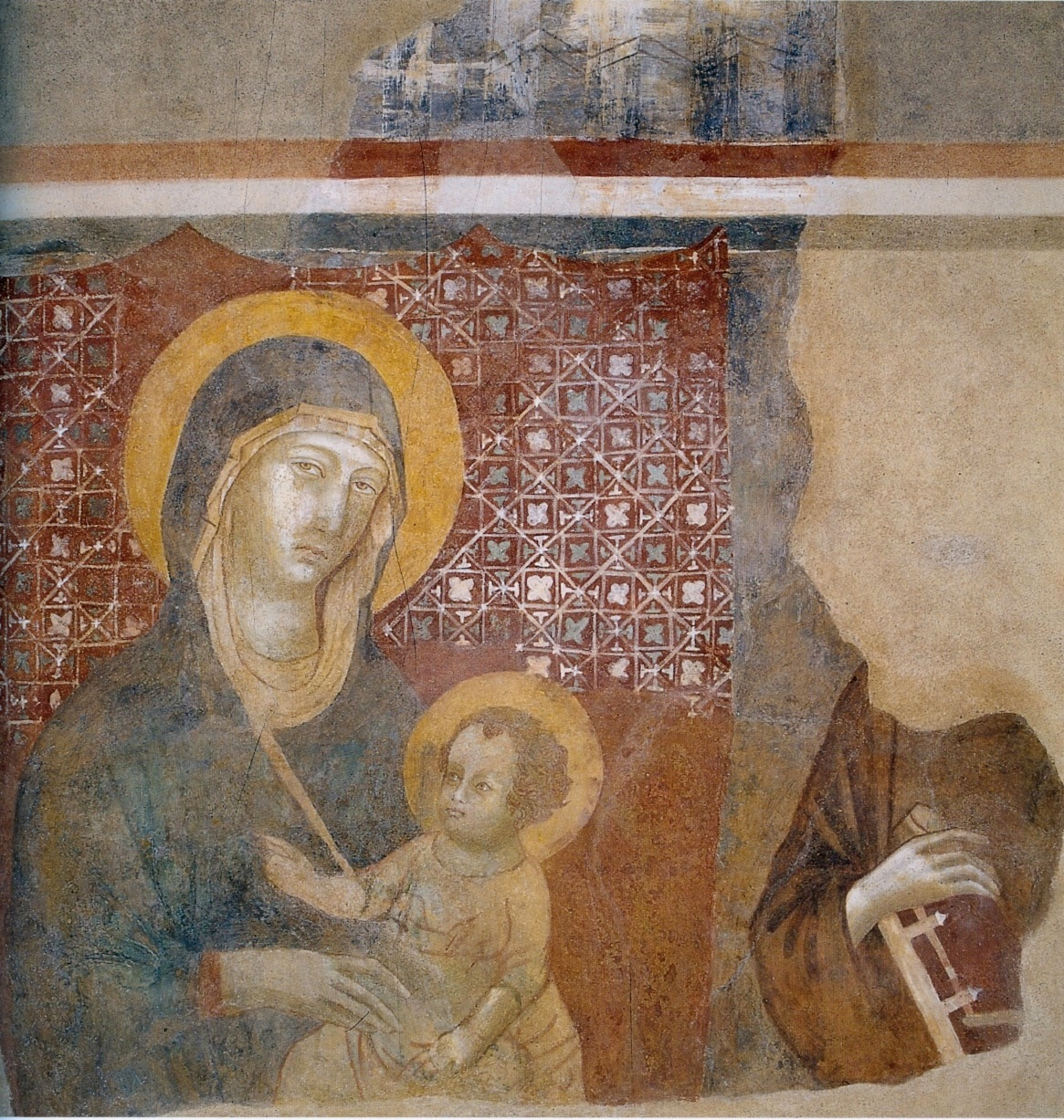 Badia a Isola Master, Madoona and Child with st. Francis, San Biagio, Montepulciano.